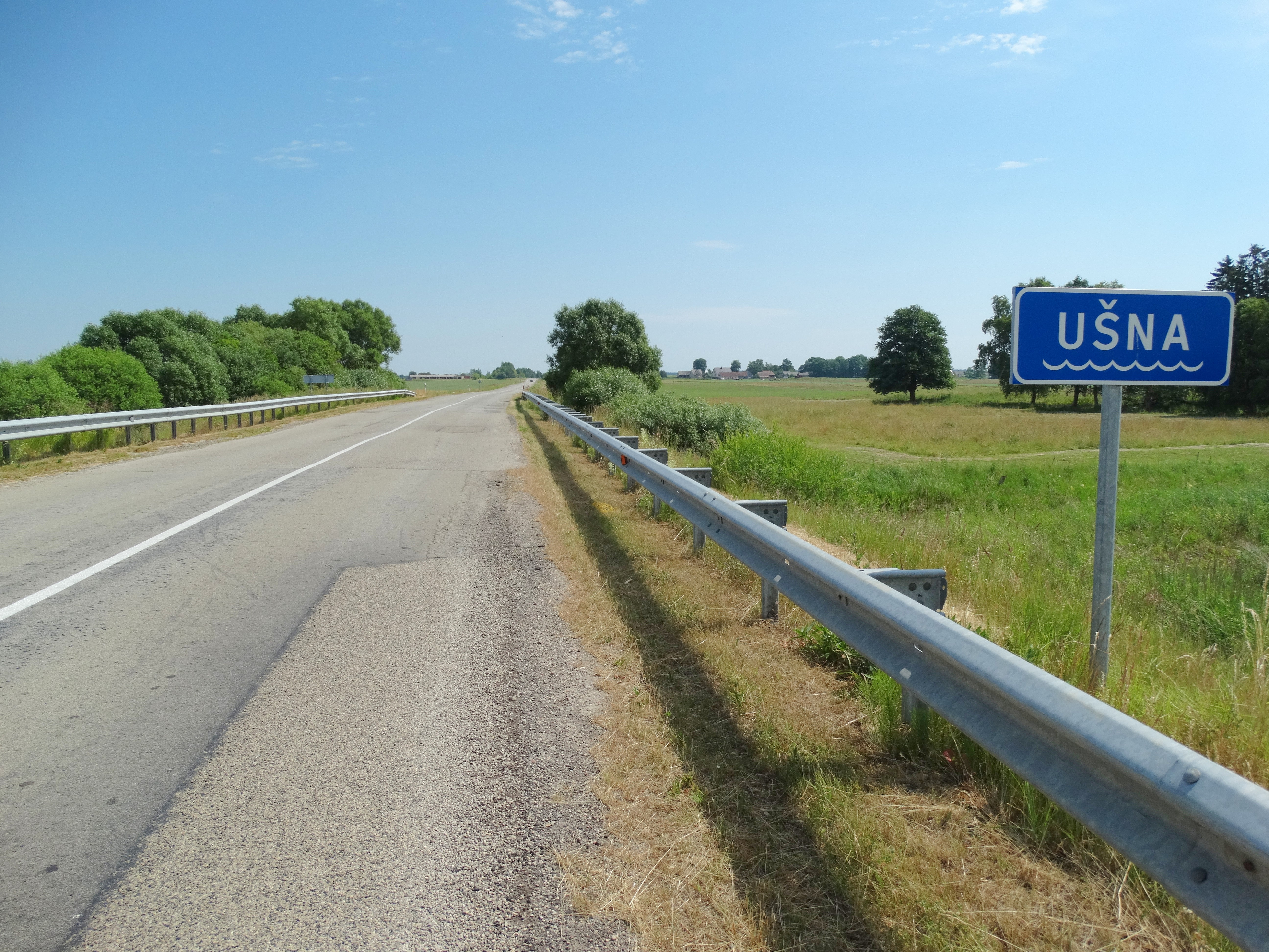 Road 159, Ušna stream, Kelmė district, Lithuania